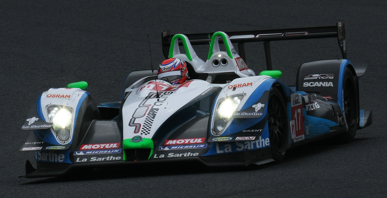 Asian Le Mans Series 2009 1000km of Okayama: Pescarolo 01 (Sora Racing), driven by Shinji Nakano.